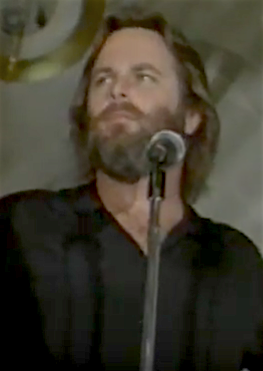 Carl Wilson at the Ronald Reagan Special Olympics Event in June 12, 1983.